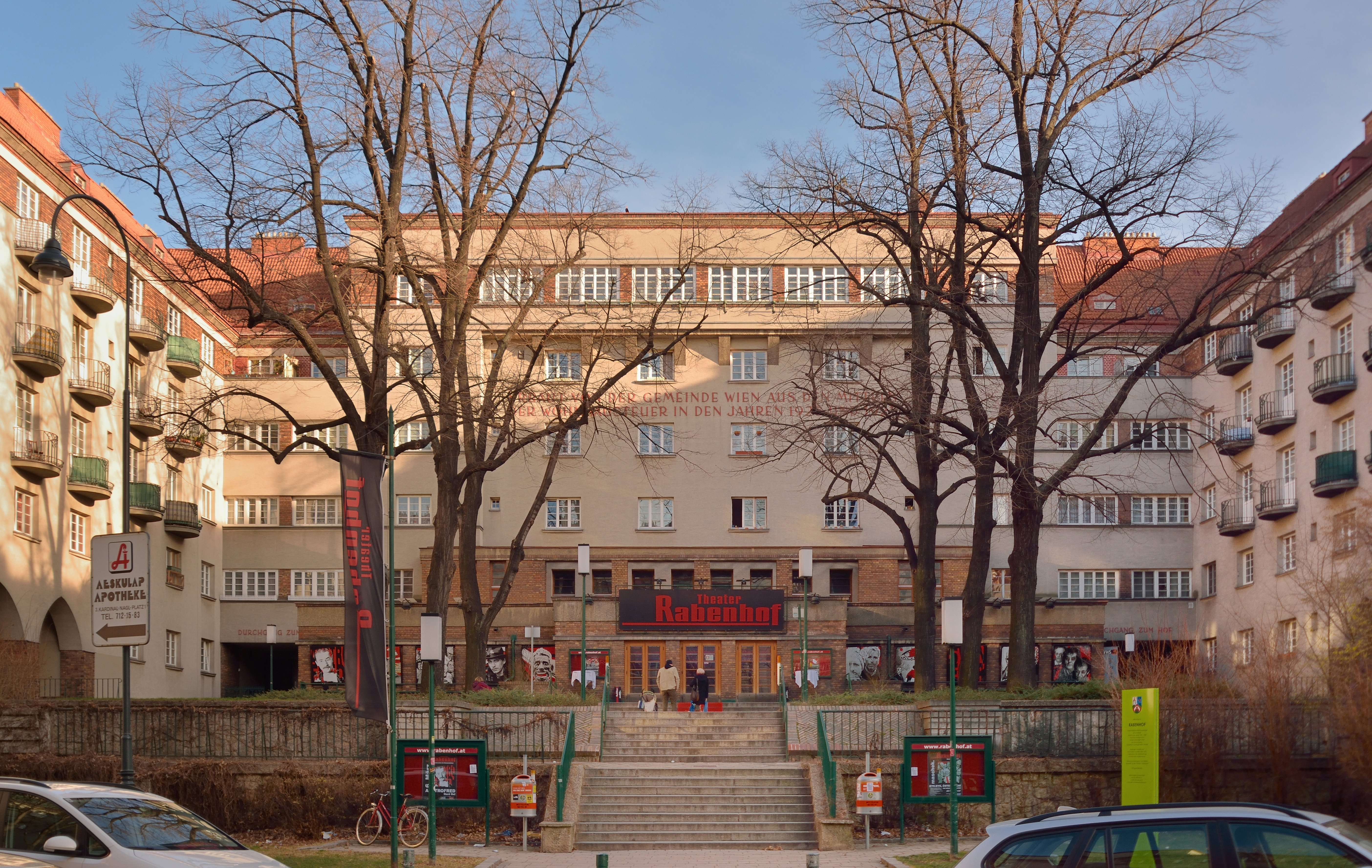 Theater Rabenhof, Rabengasse 3, 3rd district of Vienna